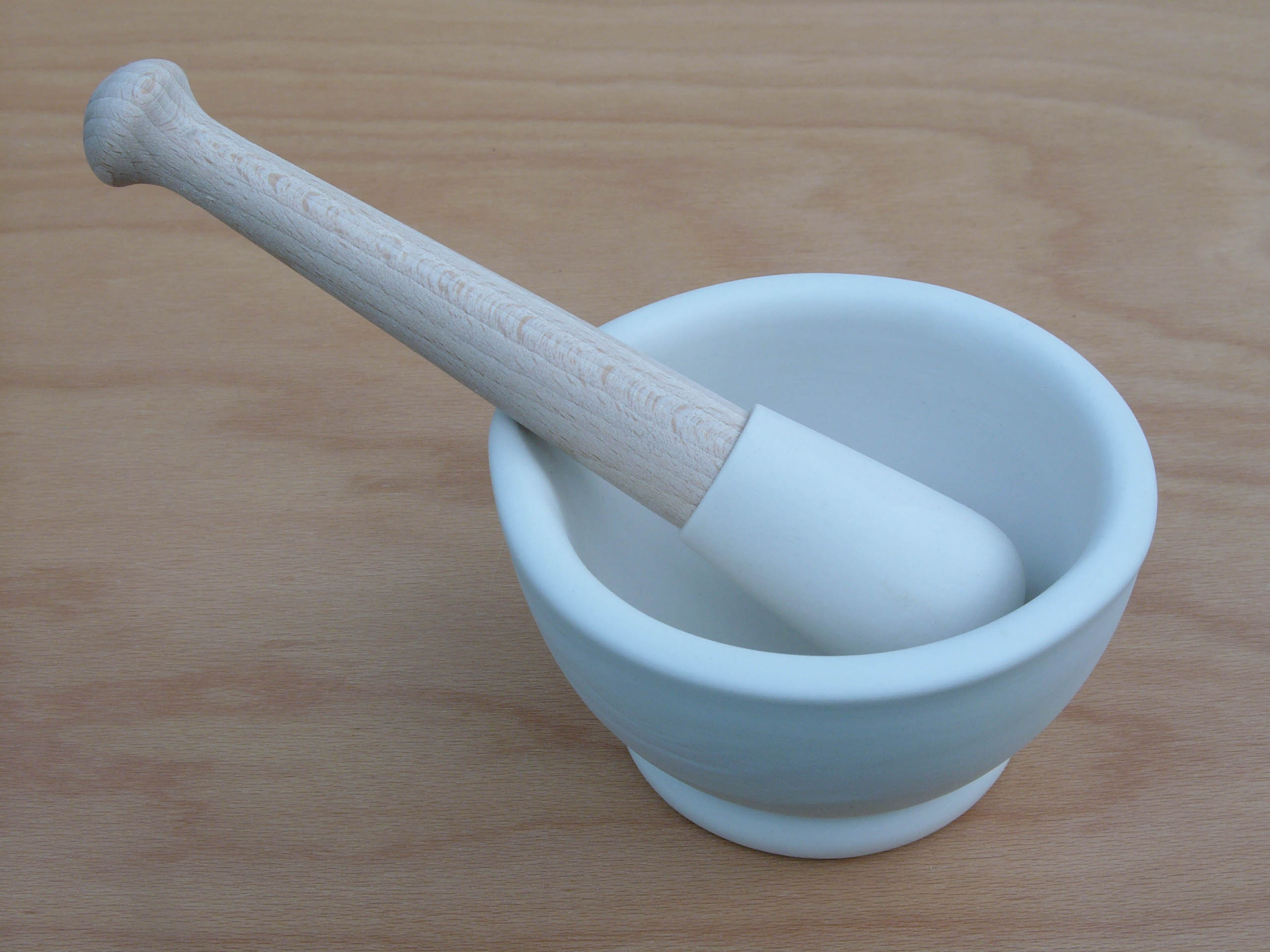 Mortar made out of stoneware